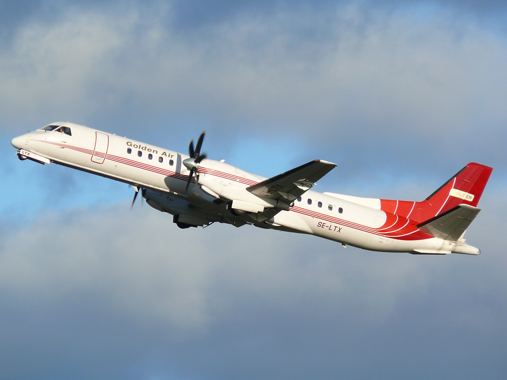 SE-LTX of Golden Air (a Saab 2000) taking of from Ängelholm Airport, Sweden.